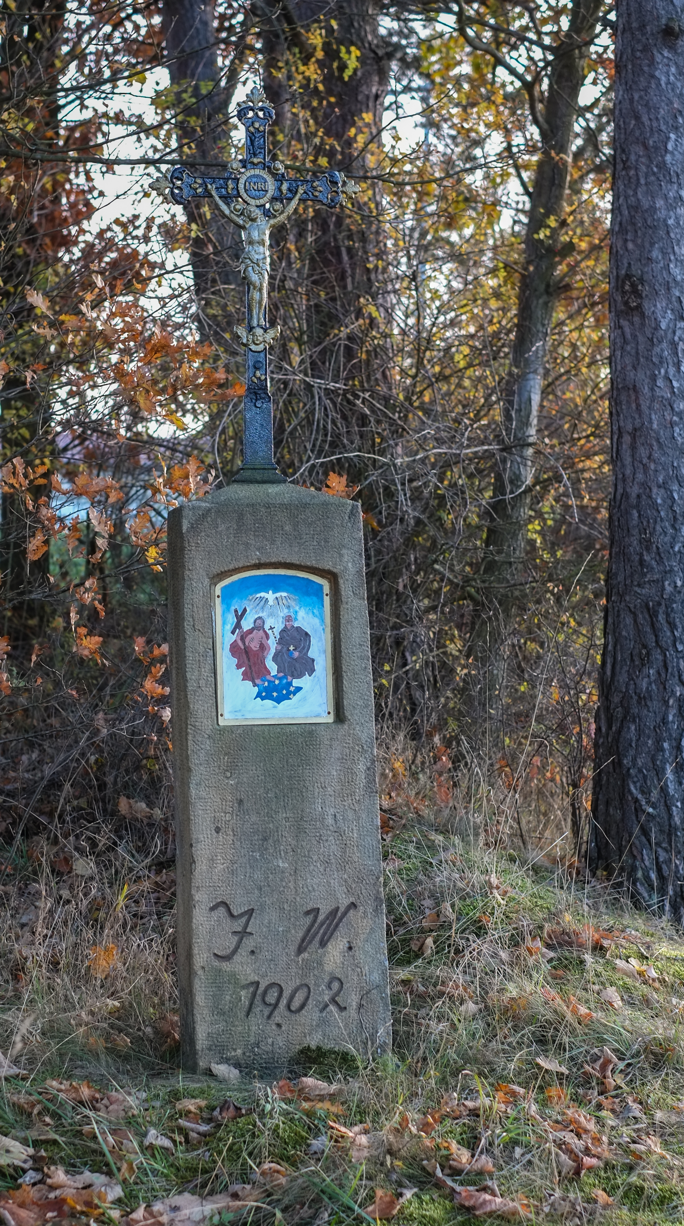 Wayside shrine, Hirschau-Ebenhof, Bavaria, Germany